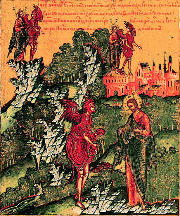 Temptation of Christ (part of Russian icon)